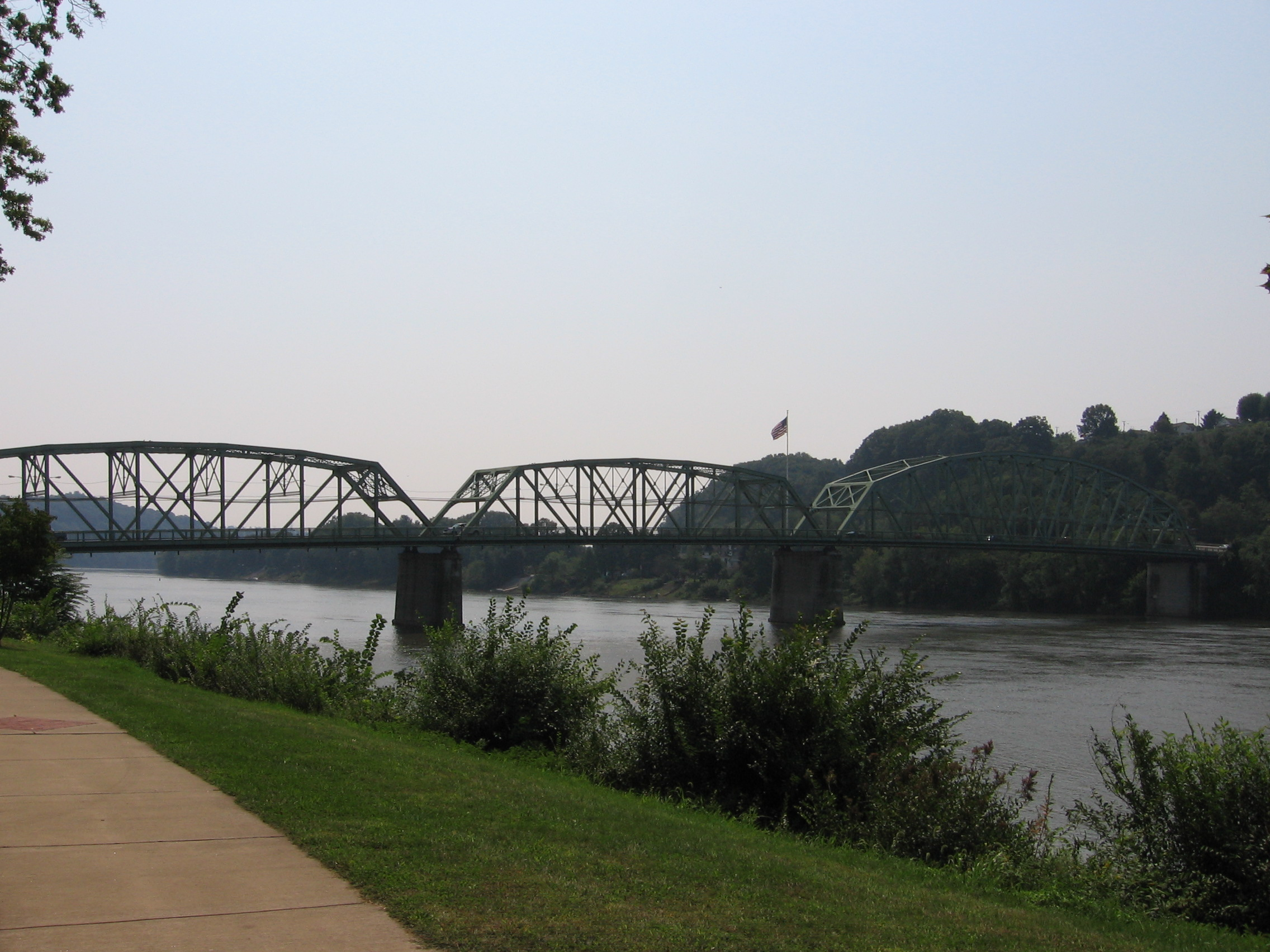 The Kittanning Citizen's Bridge in Kittanning. Photo taken by Mvincec on 9 September, 2006.